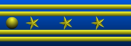 made to illustrate State Military ranks in the Full Metal Alchemist anime.